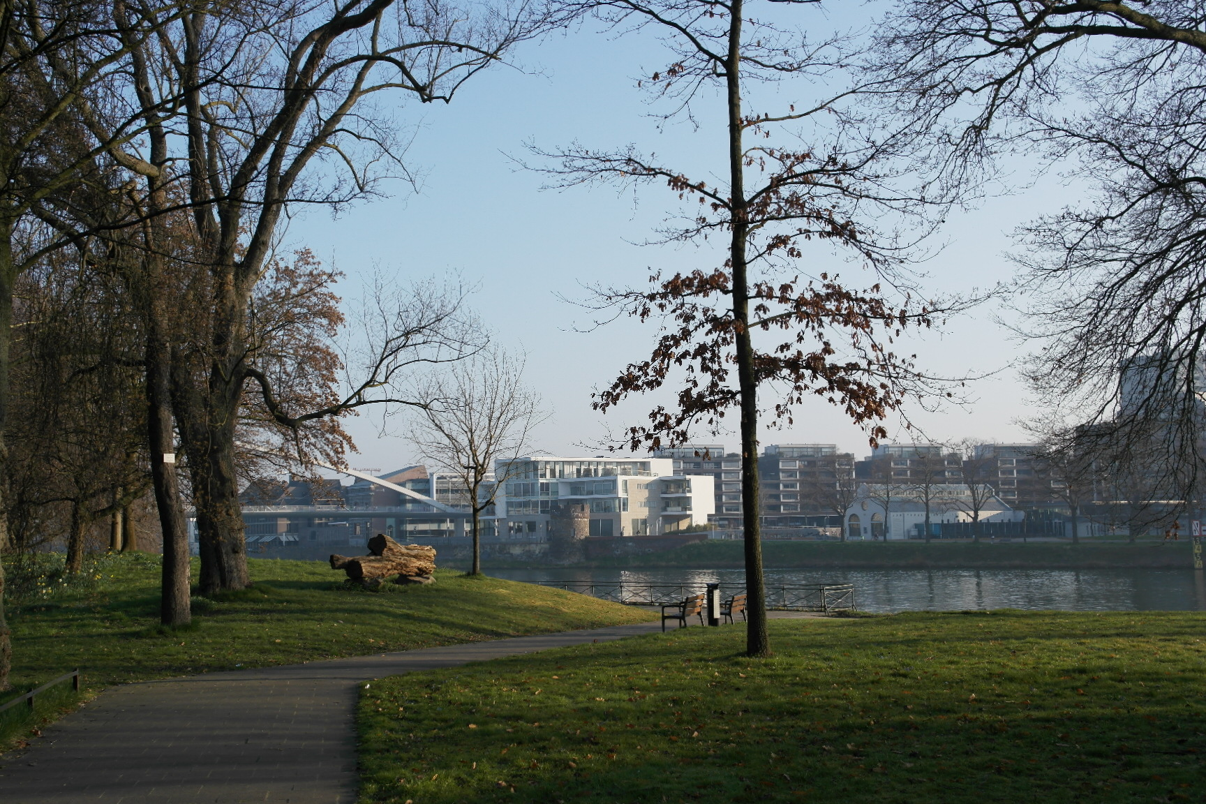 Maastricht, the Netherlands. View of Stadspark along the river Meuse.